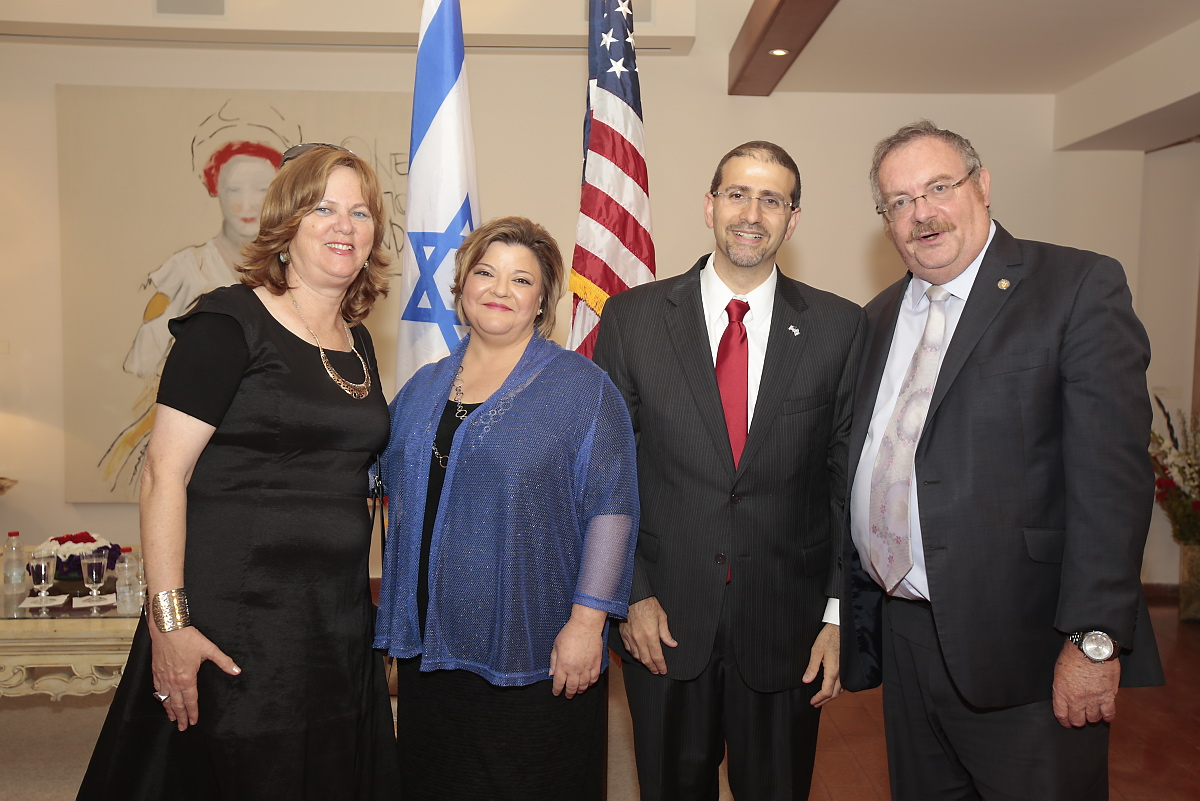 July 4th 2015